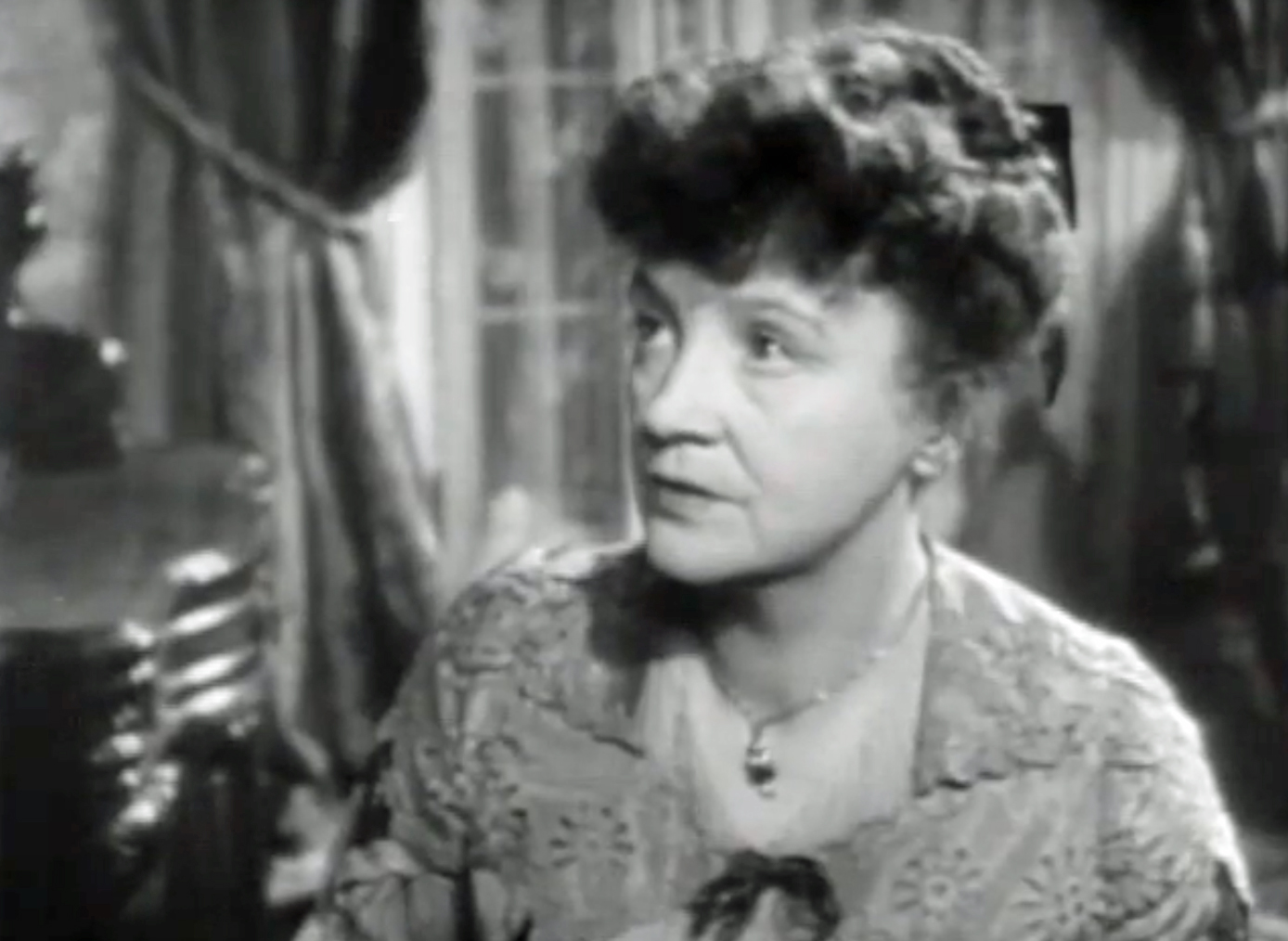 Patricia Collinge in trailer for "The Little Foxes" (1941)